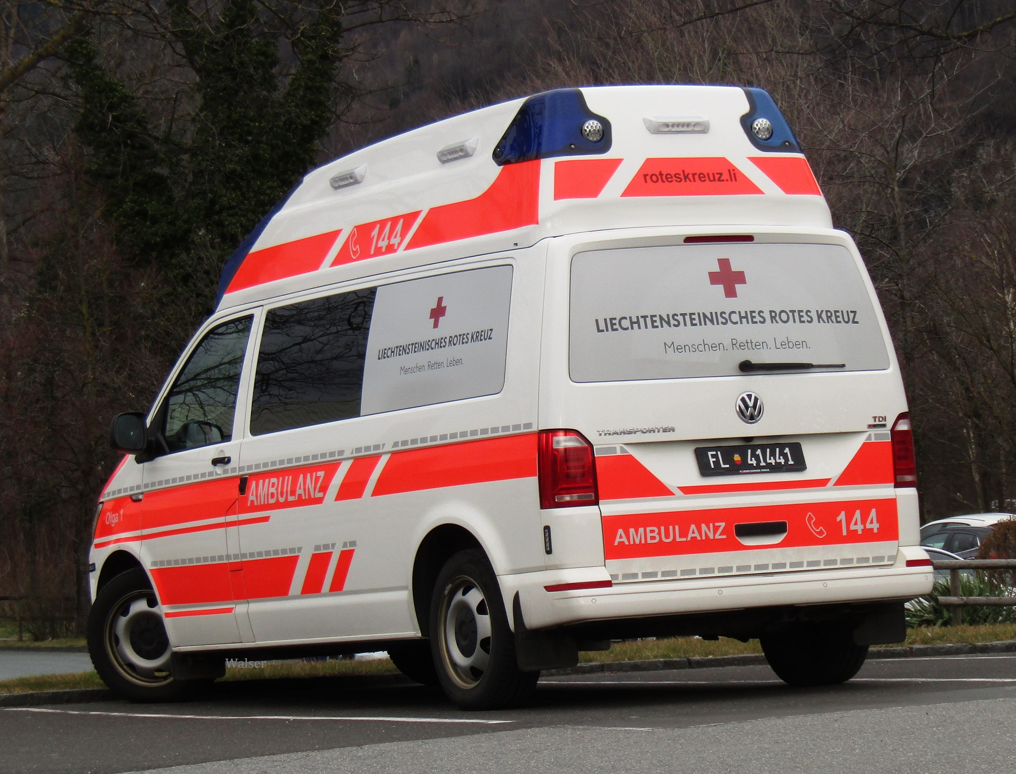 FL 41441Liechtenstein red cross ambulance vehicle with "personalized" license plates.The numbers from FL 41441 to FL 41449 are reserved for ambulance/red cross vehicles (144 = emergency phone number).